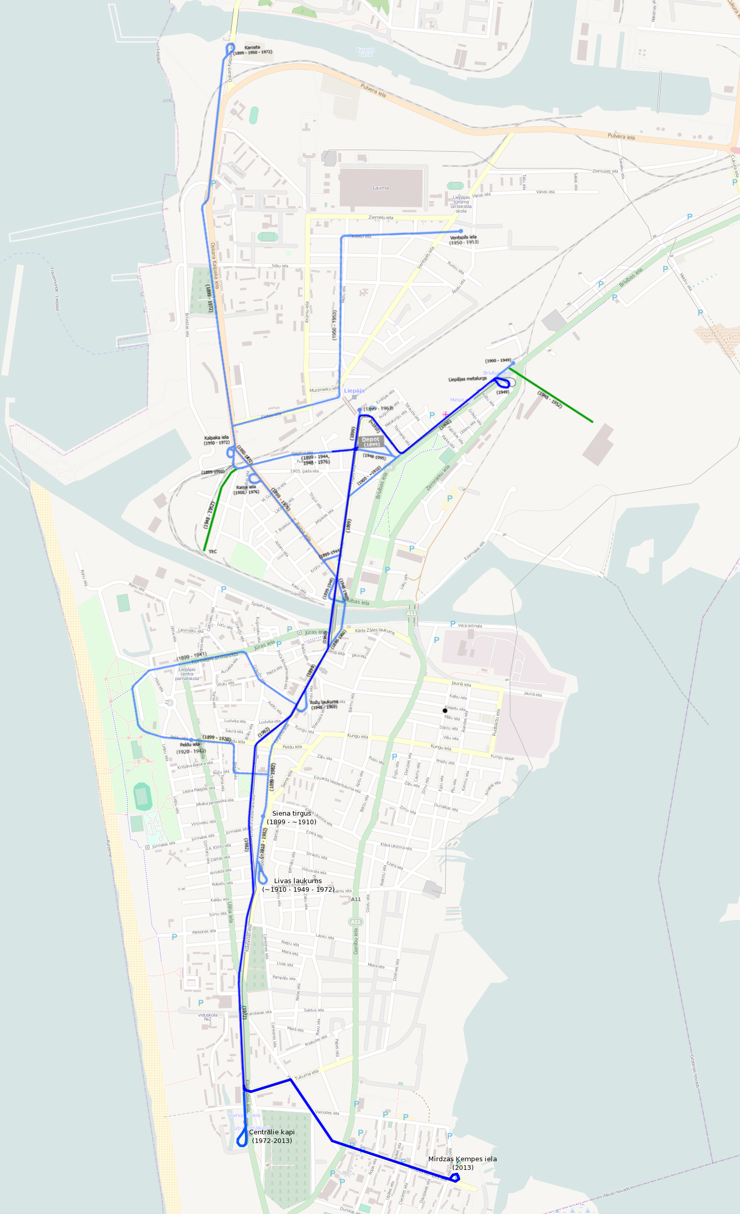 Tramway network of Liepāja, Latvia. Actual lines in dark blue, historical lines in light blue.